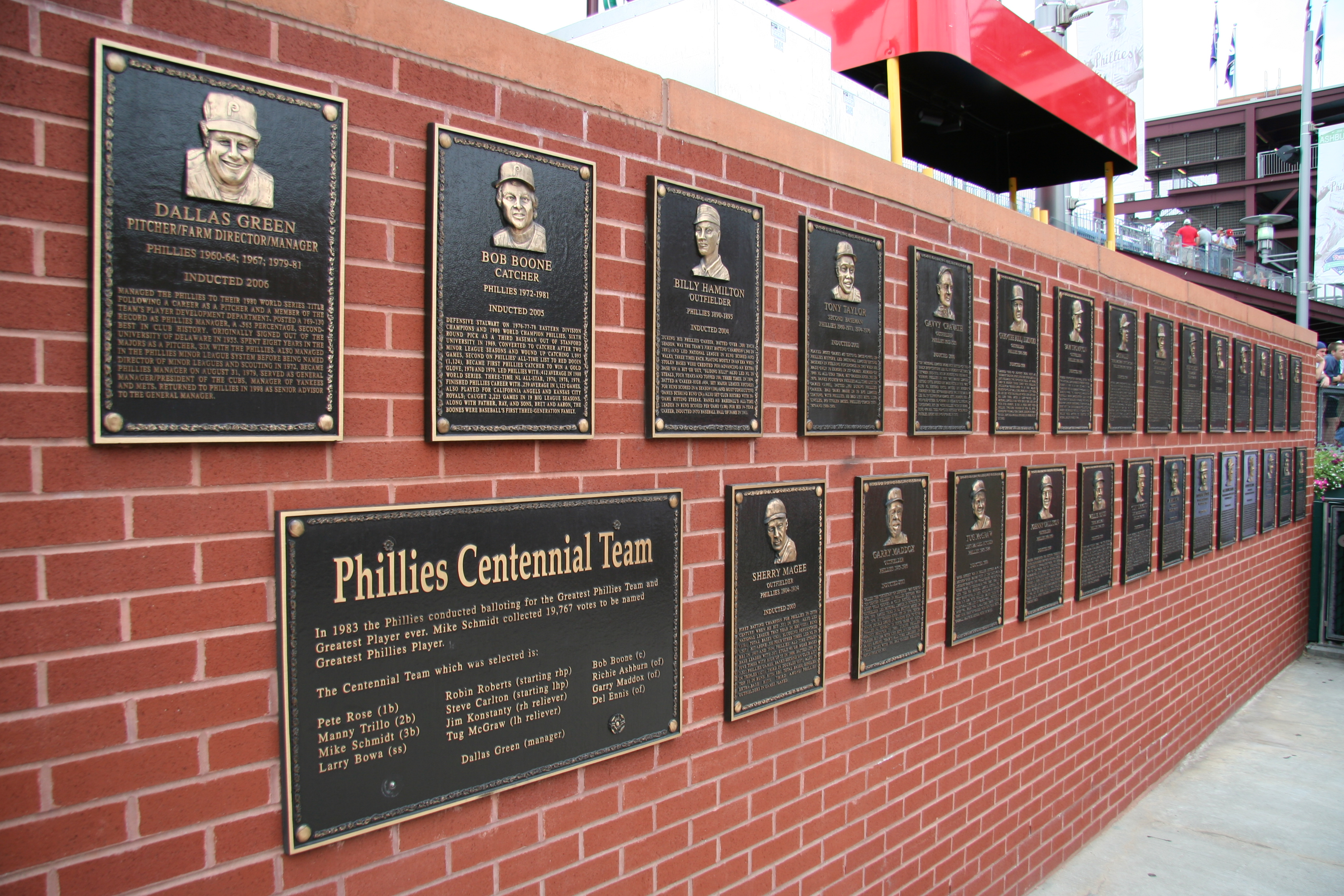 Phillies Wall of Fame at Citizens Bank Park